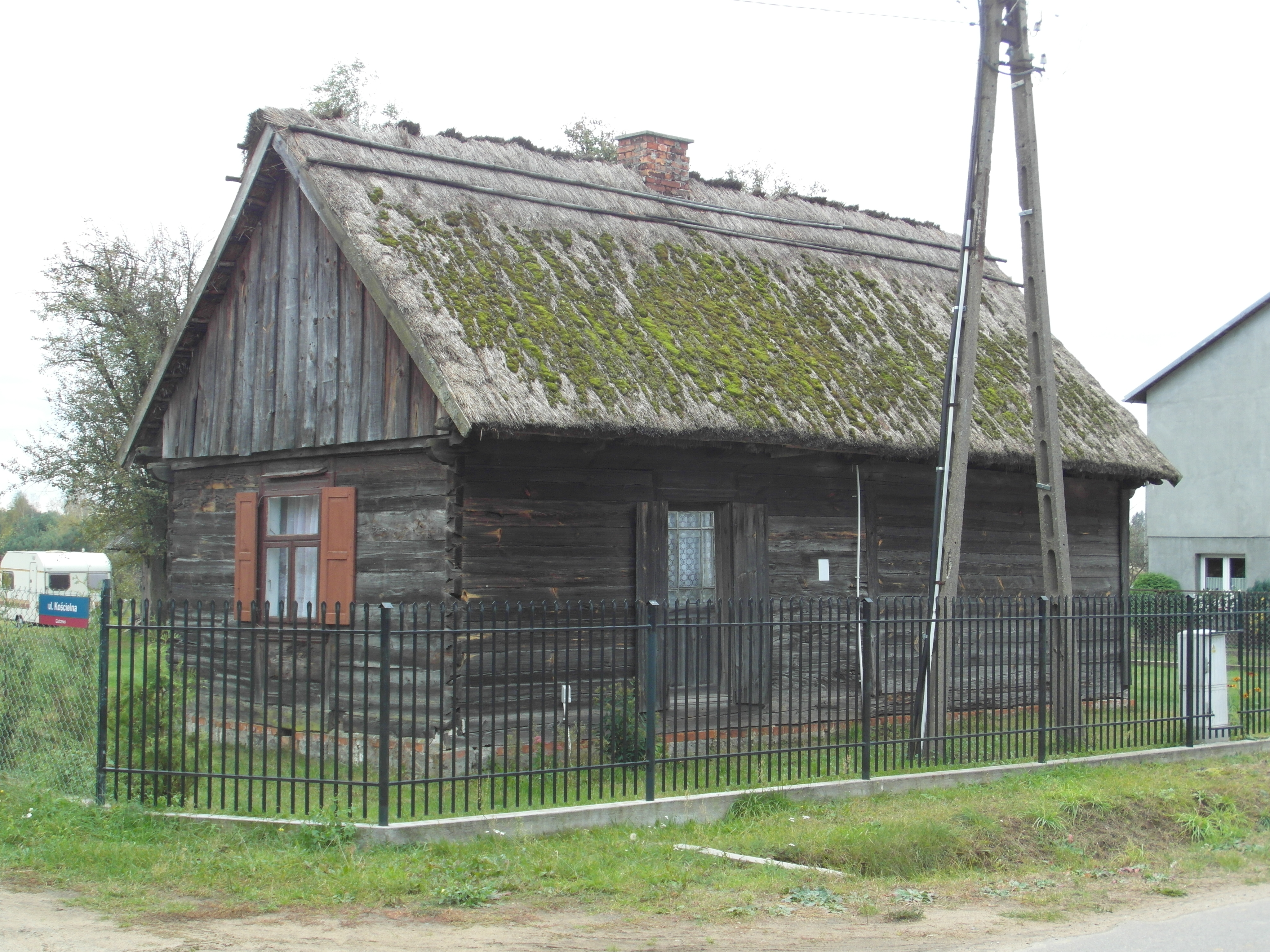 Gulczewo (powiat wyszkowski), old house